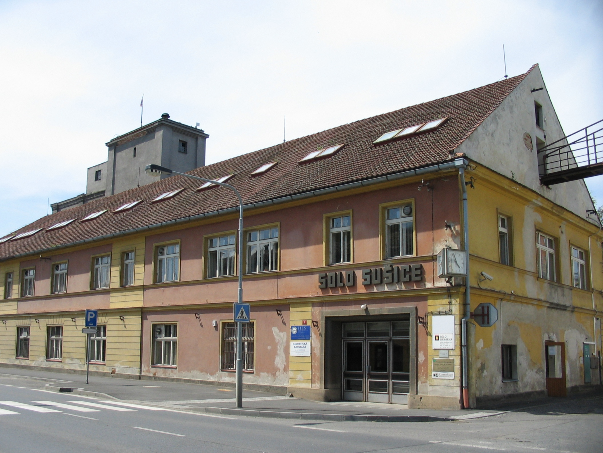 Building of SOLO Sušice (safety matches producer)